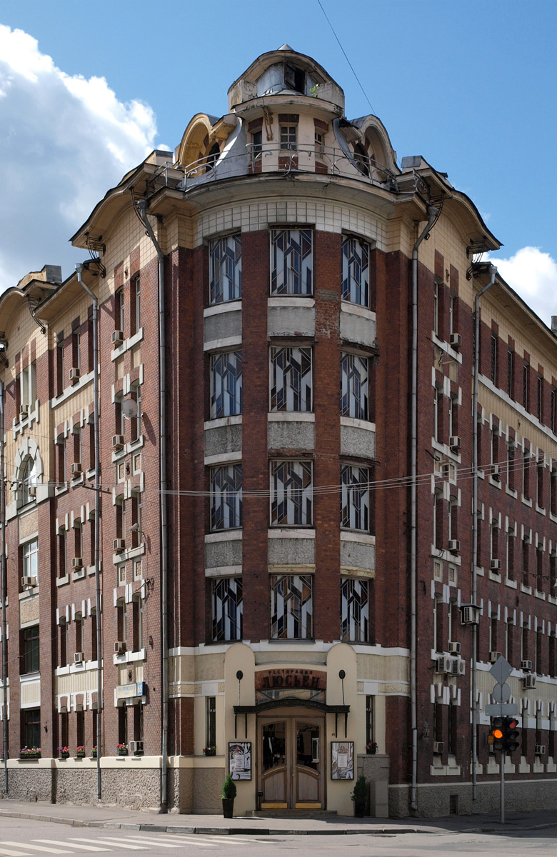 Corner of Gilarovskogo and Trifonovskaya Streets in Moscow